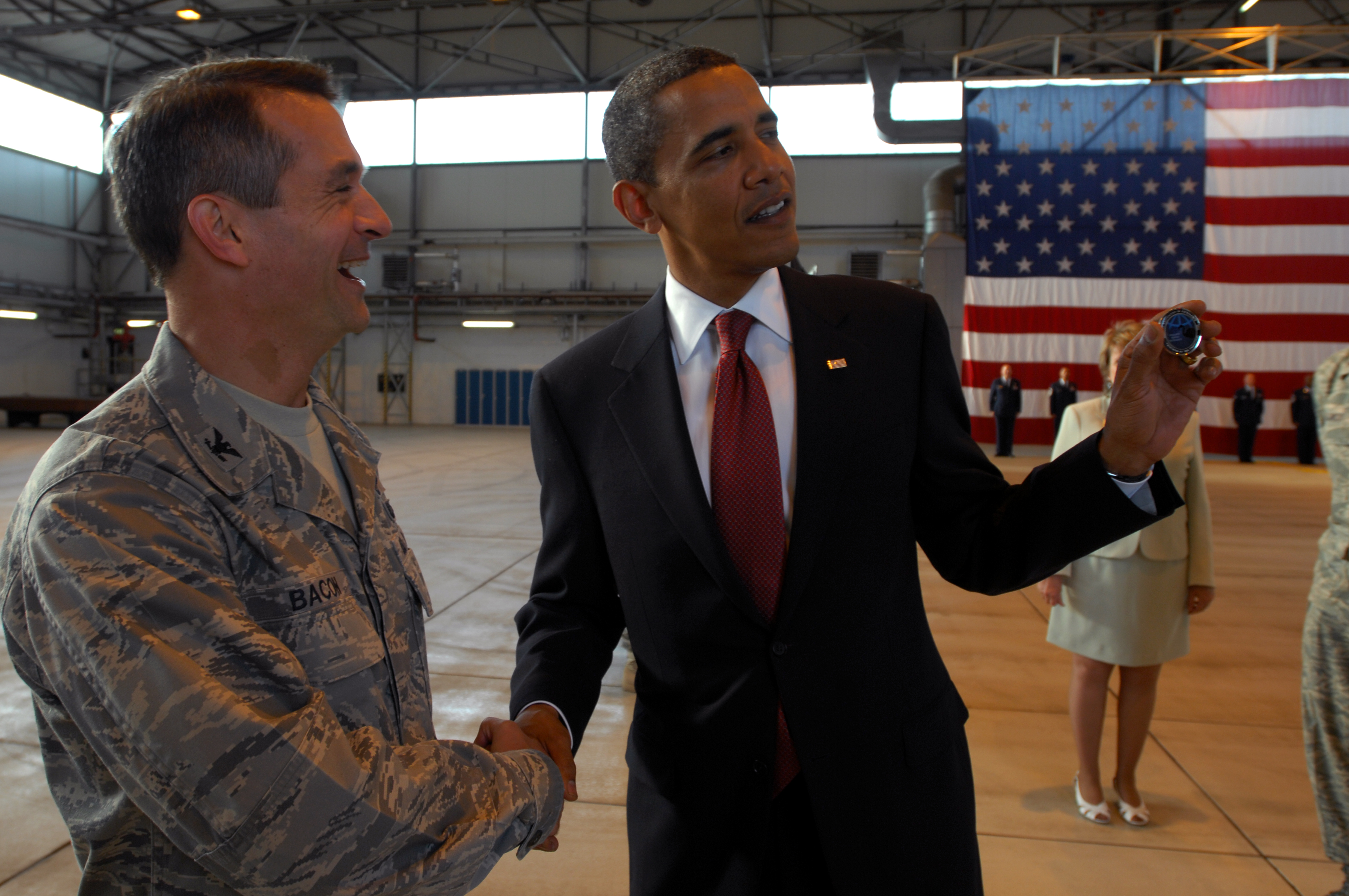 President Barack Obama shows off a 435th Air Base Wing coin given to him by Col. Don Bacon, 435th ABW commander, June 5, 2009, Ramstein Air Base, Germany. President Obama arrived at Ramstein en route to Landstuhl Regional Medical Center, Germany to visit wounded U.S. military members being treated there.(U.S. Air Force photo by Senior Airman Kenny Holston)